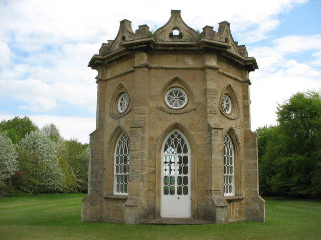 Bramham Park Gothic Temple